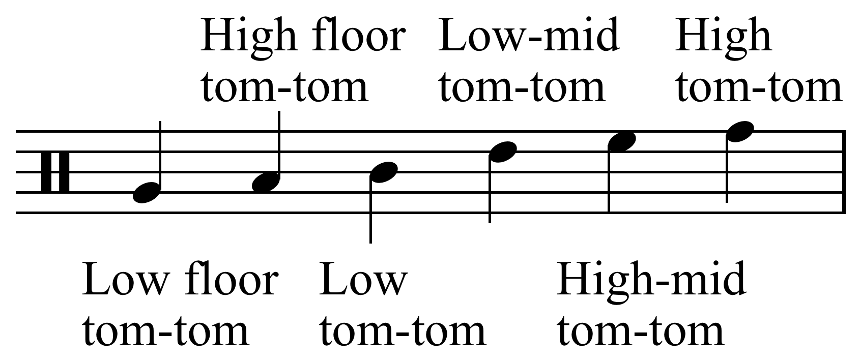 Possible drum legend for (six) toms. Created by Hyacinth (talk) 22:05, 5 December 2009 using Sibelius 5.